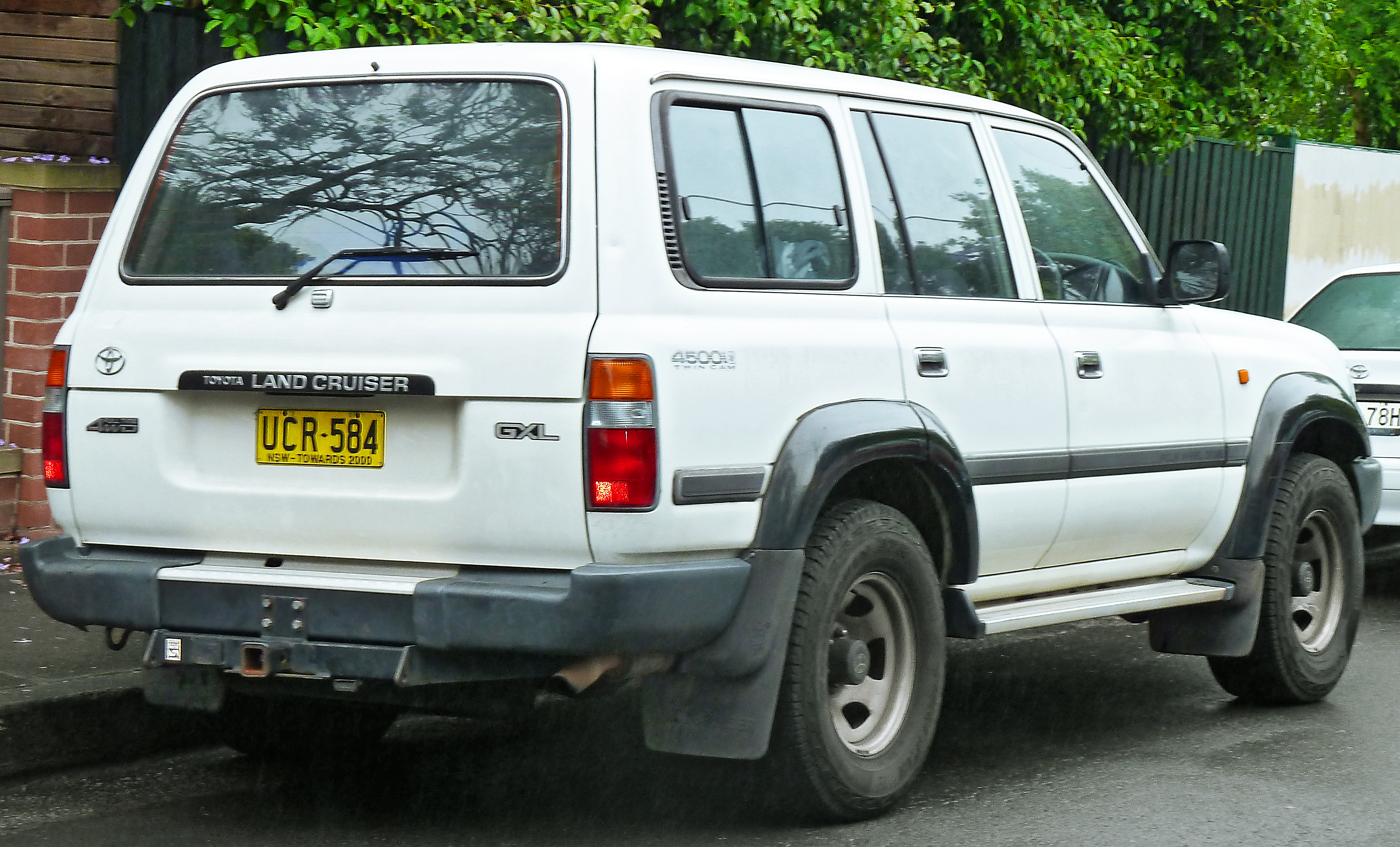 1996 Toyota Land Cruiser (FZJ80R) GXL wagon. Photographed in Roseville, New South Wales, Australia.